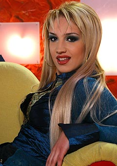 Photo session from the popular Macedonian pop singer Eva Nedinkovska